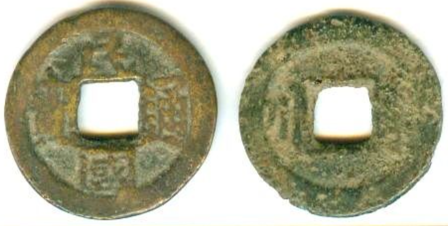 Minkuo Tungpao (“民国通宝”) were cast in Tungchuan (“东川”). David Hartill 2005 Cast Chinese coins number 431.23.7 China republic